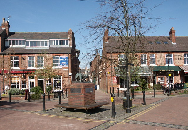 Goose Green - Altrincham, Cheshire An old enclave near the Altrincham to Chester railway line. Development of the adjacent areas has brought a cinema, superstore and ice rink. There is a sculpture of geese in the middle of the square, which is largely pedestrianised. Altrincham is also one of they most expensive areas out side of London to live with all of the footballers and celebrities living around the area.